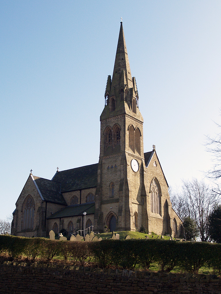 St Martin's church at Castleton, Greater Manchester, England.